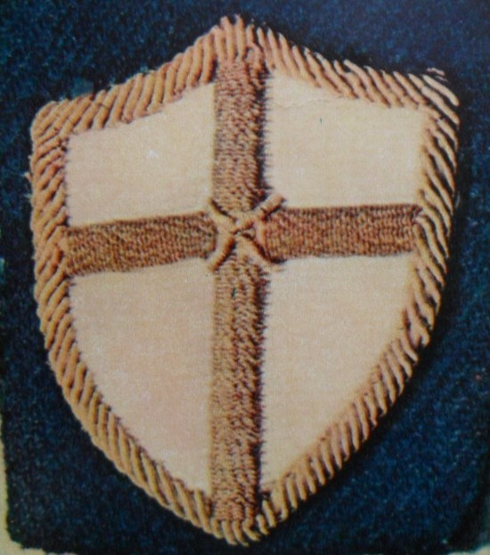 Badge of the British 8th Army Reg